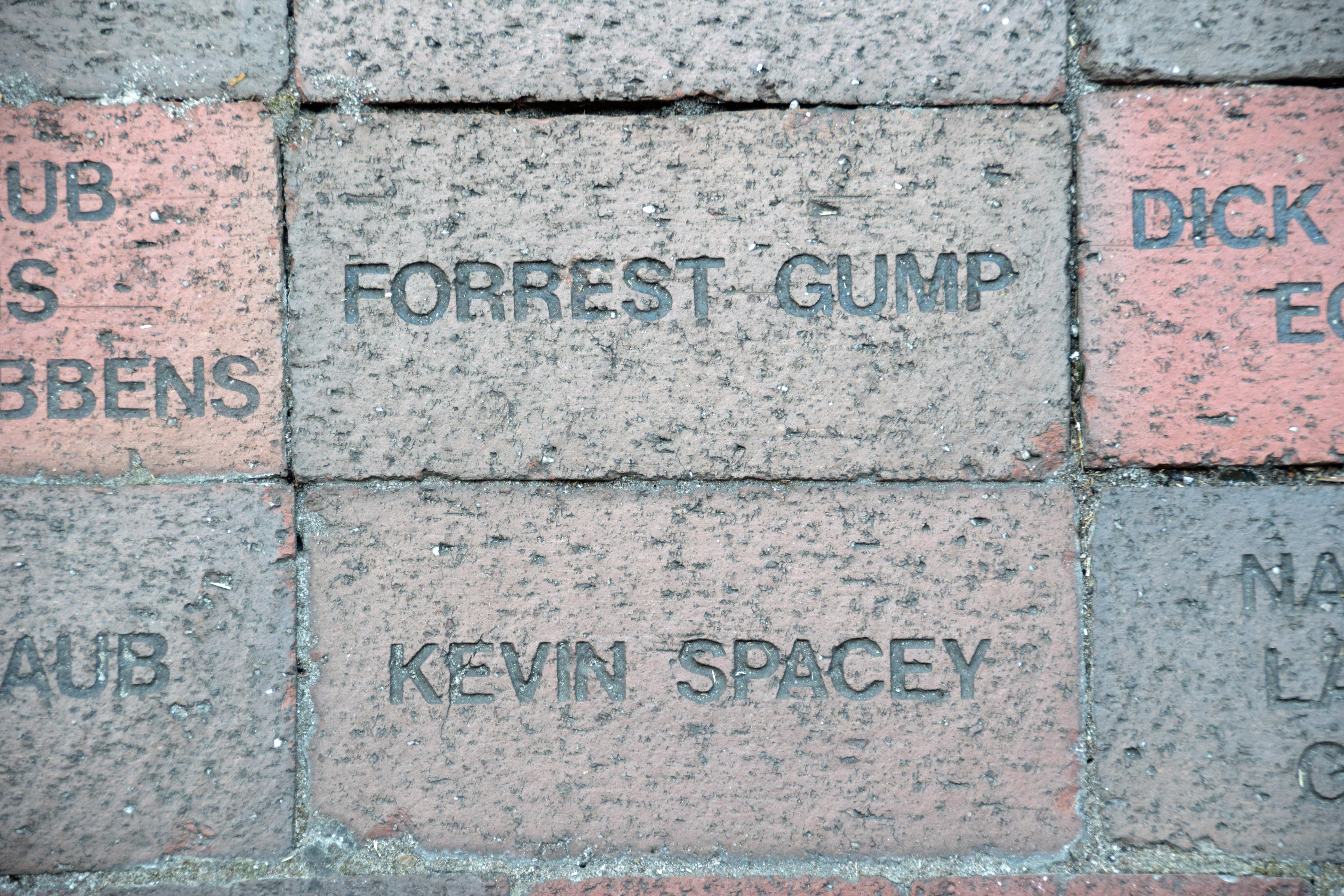 Forrest Gump brick in front of the Lucas Theater in Savannah, Georgia, USA